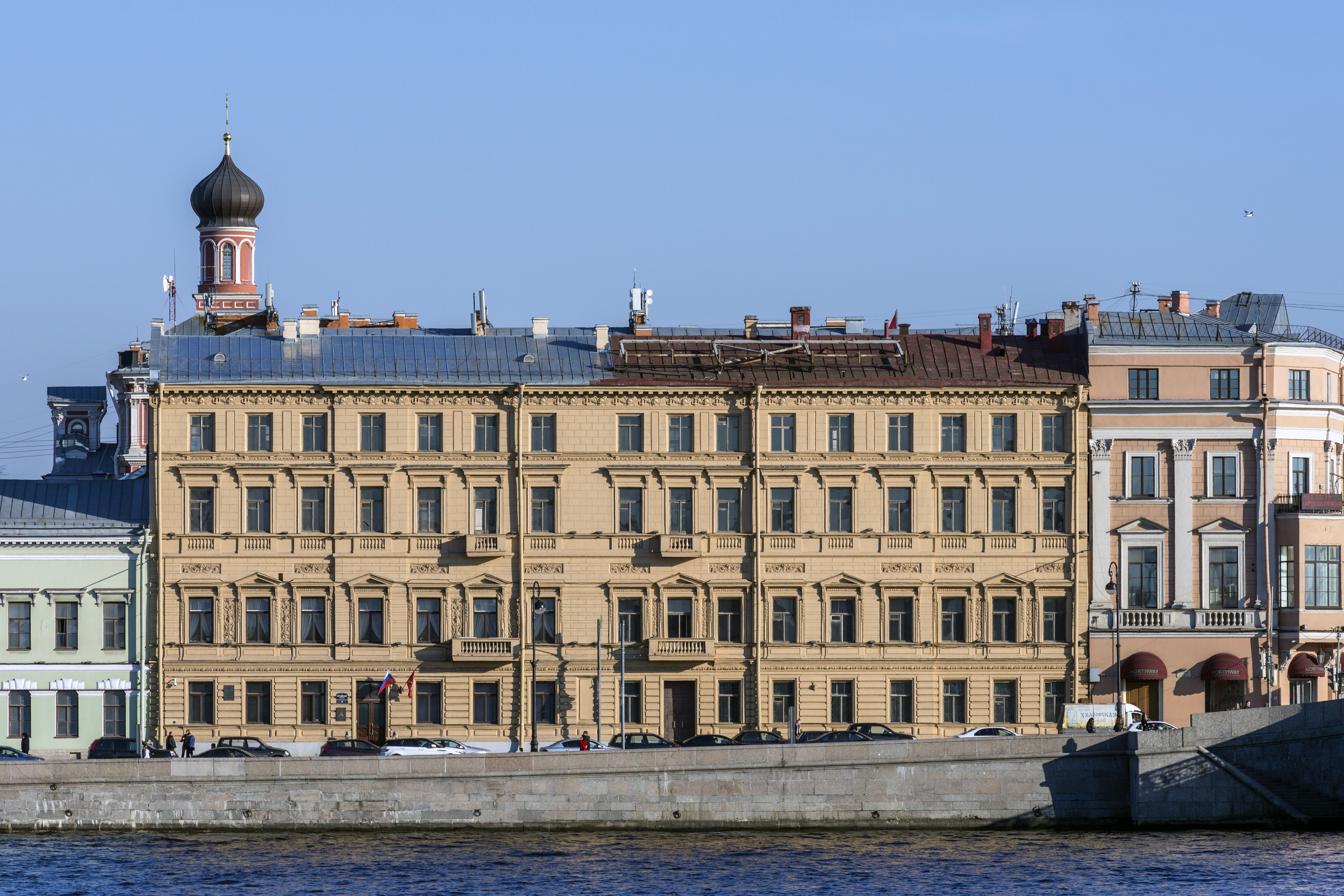 Angliyskaya Embankment in Saint Petersburg. Dolgorukova's Mansion (left side) and Vineken's Mansion (right side)